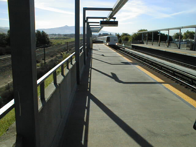 Northbound train arriving at Onion City BART station, with Mission Peak visible in background, in Fremont CA. Note the lack of jail/theme park vertical bars on the platform at that time. Anyone could jump over the climb down the hill, or vice versa, at the time.